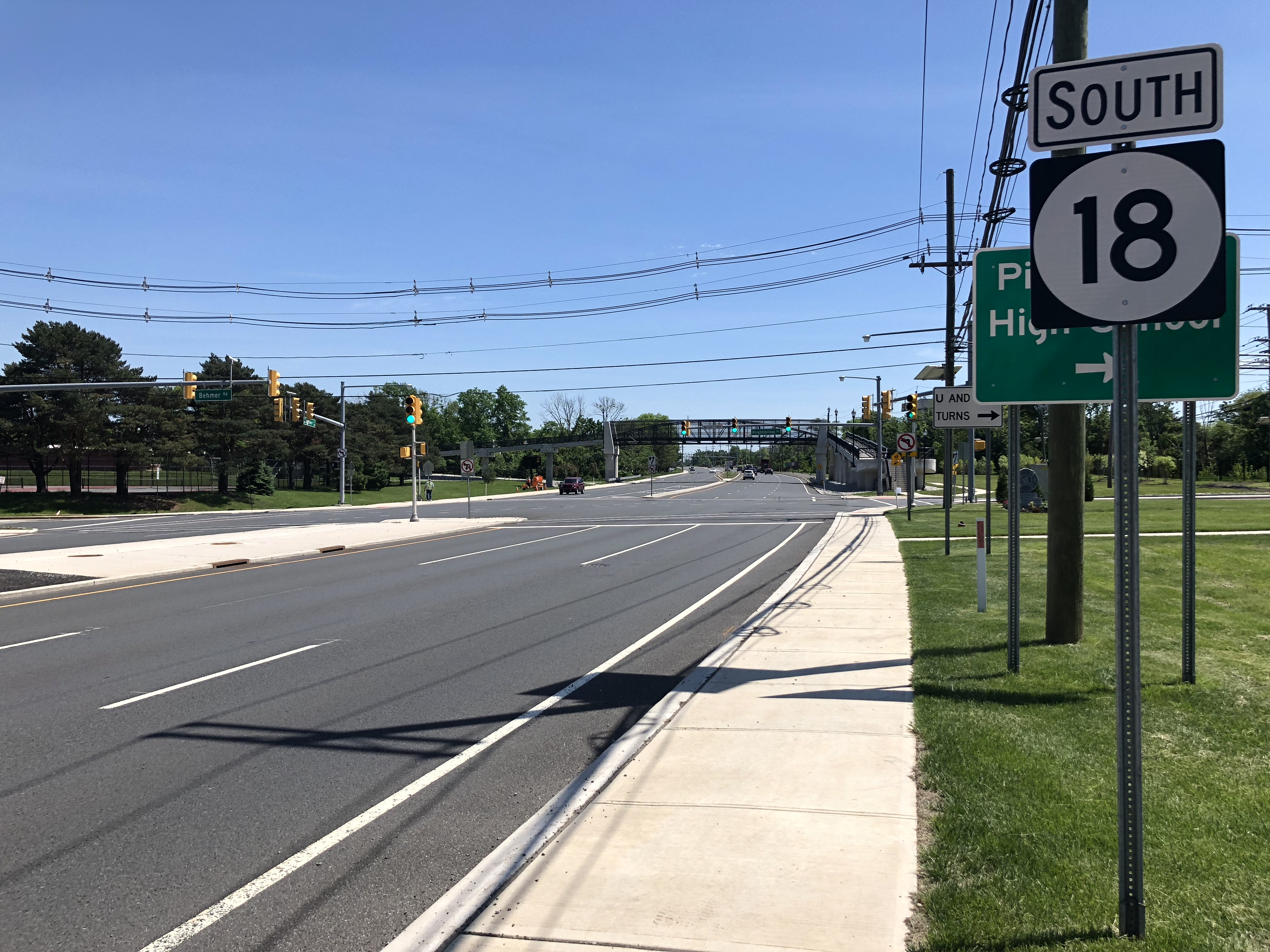 View south along New Jersey State Route 18 (Hoes Lane) between Centennial Avenue and Knightsbridge Road/Behmer Road in Piscataway Township, Middlesex County, New Jersey